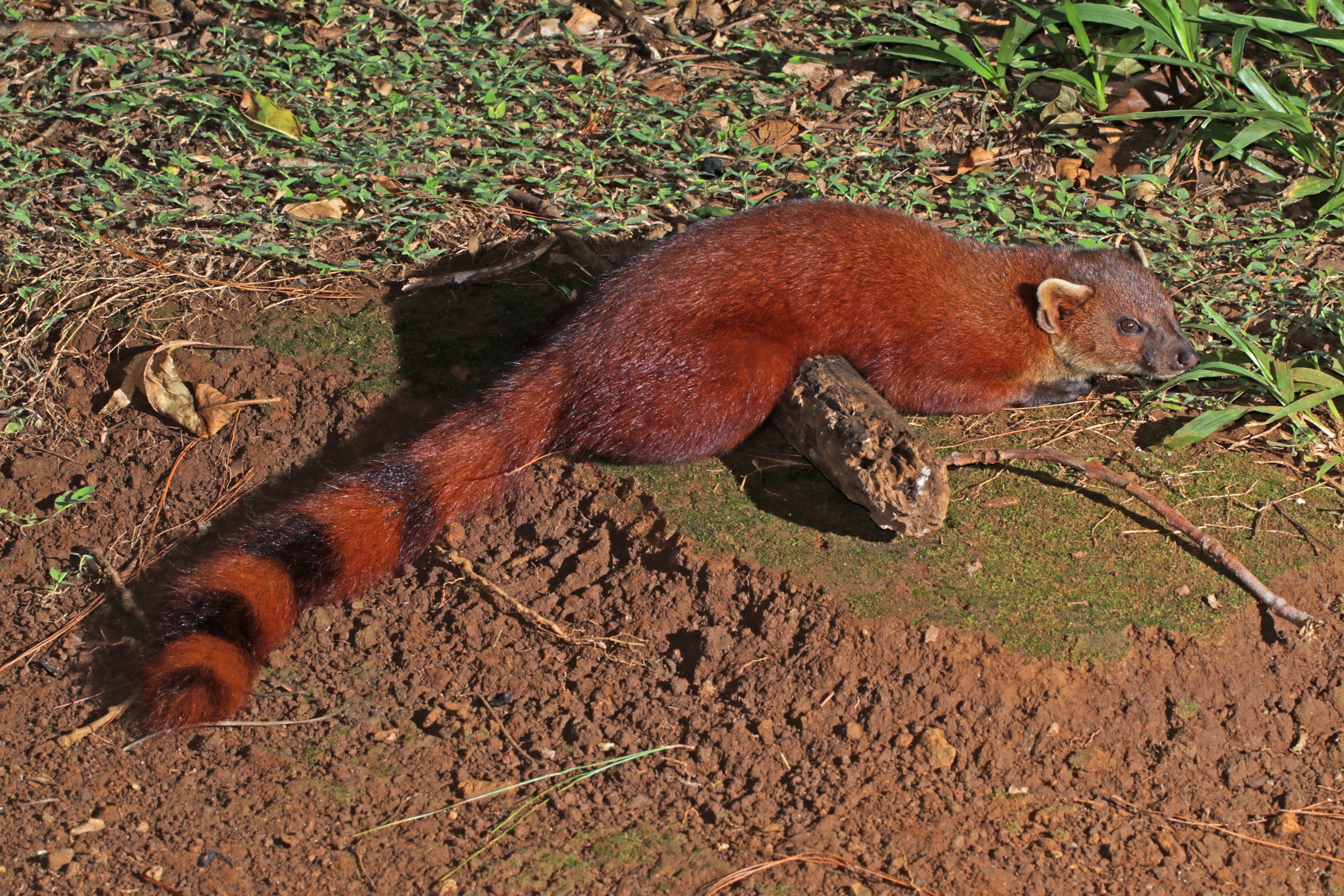 Ring-tailed vontsira (Galidia elegans), Montagne d’Ambre National Park, Madagascar. Still known locally as a mongoose.